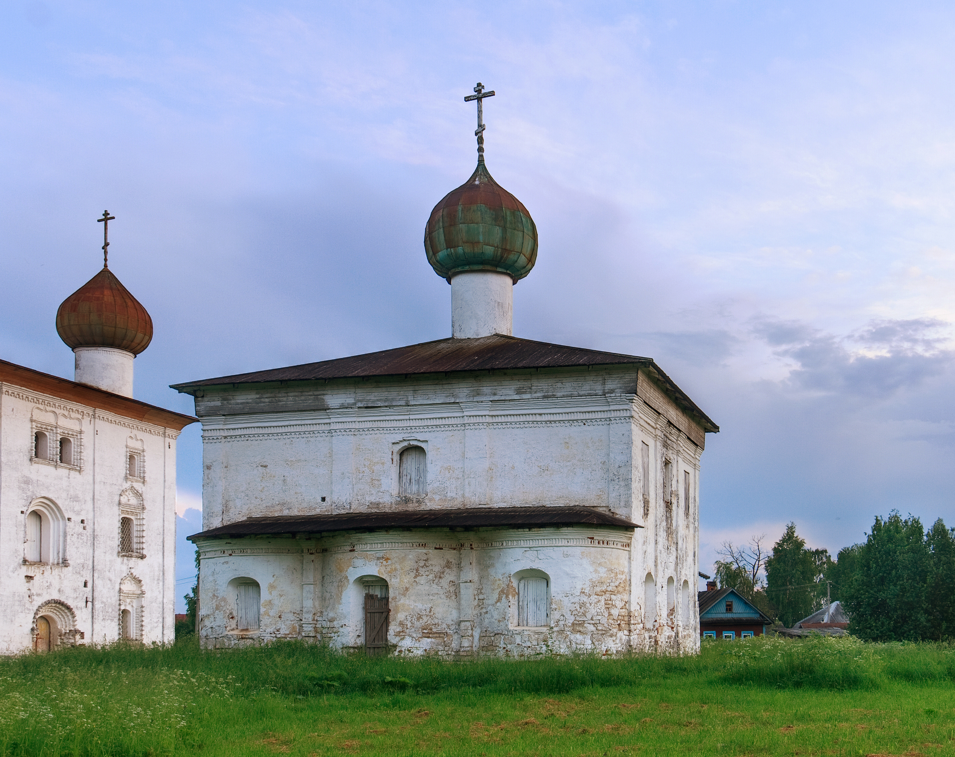 Saint Nicholas Church, Kargopol, Arkhangelsk Oblast